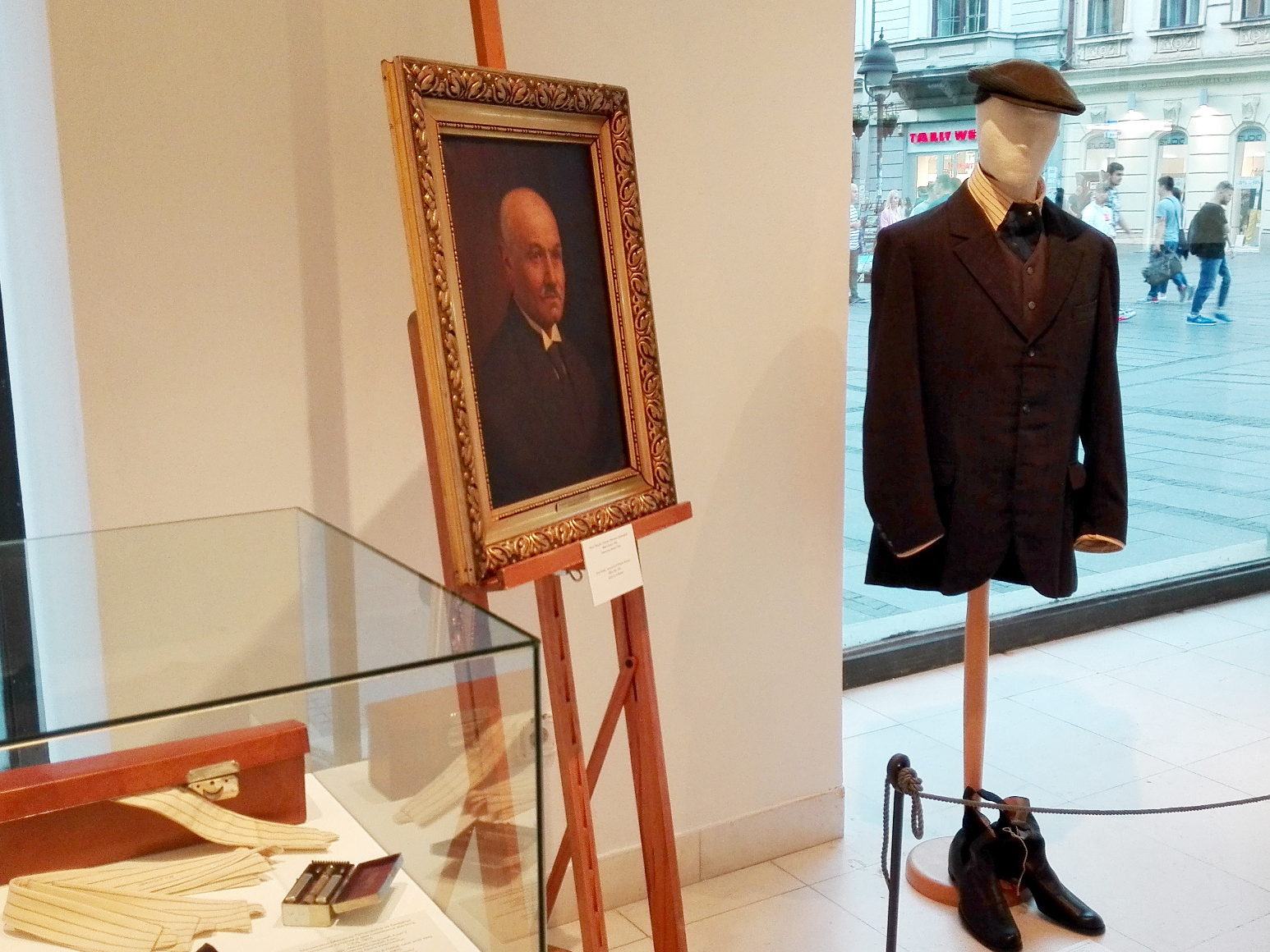 Clothes and the portrait of the Serbian mathematician and professor Mihailo Petrović Alas, SANU Gallery